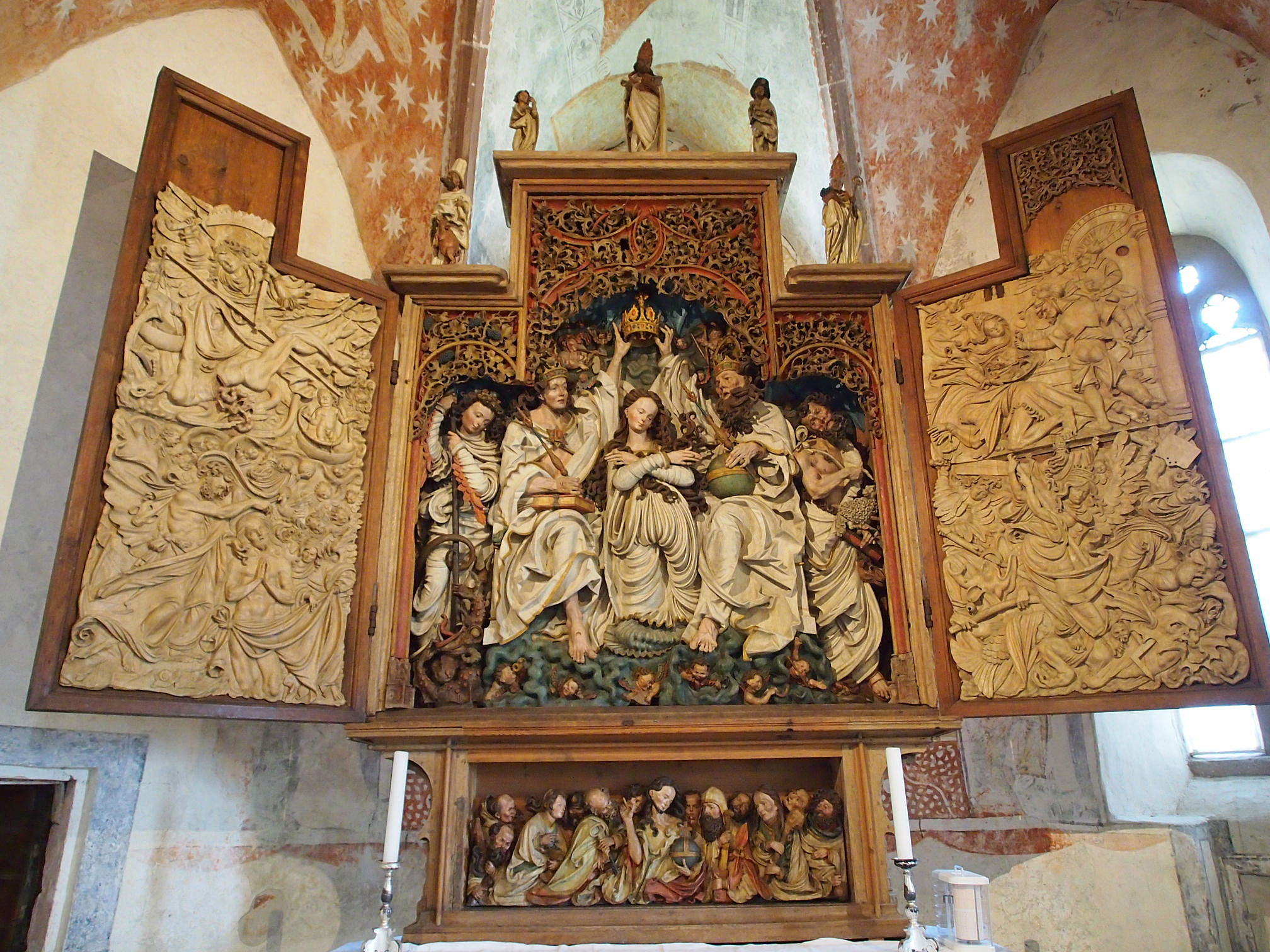 Altar of master HL in the church St. Michael in Niederrotweil (part of Vogtsburg), Germany.